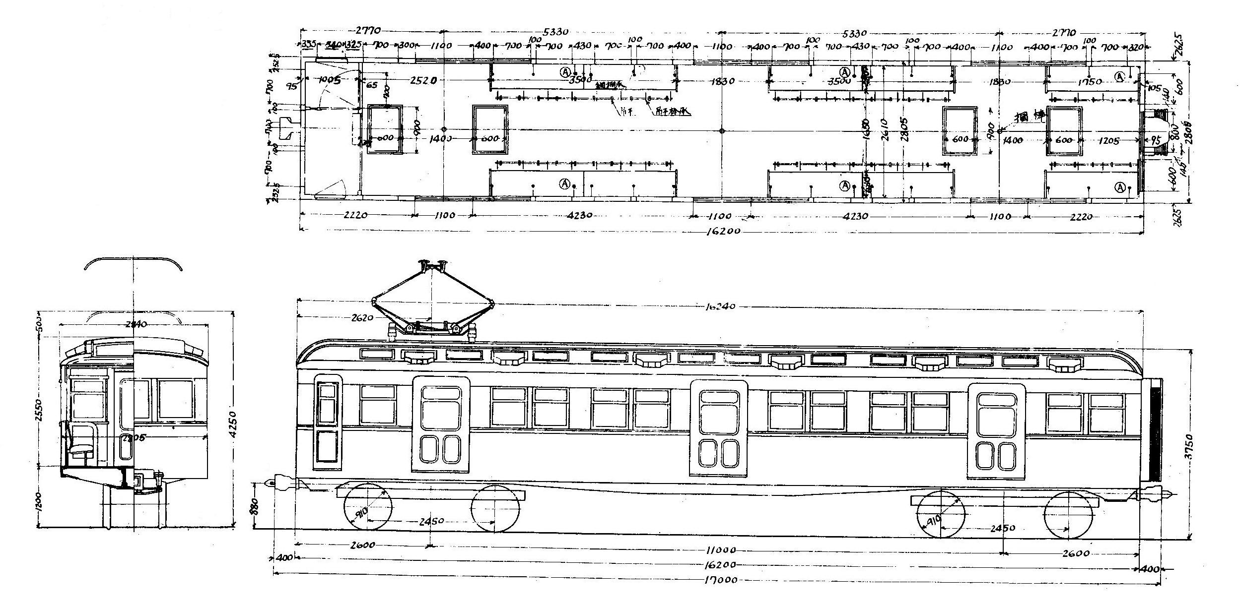 Type drawing of JNR's electric car Moha11-0